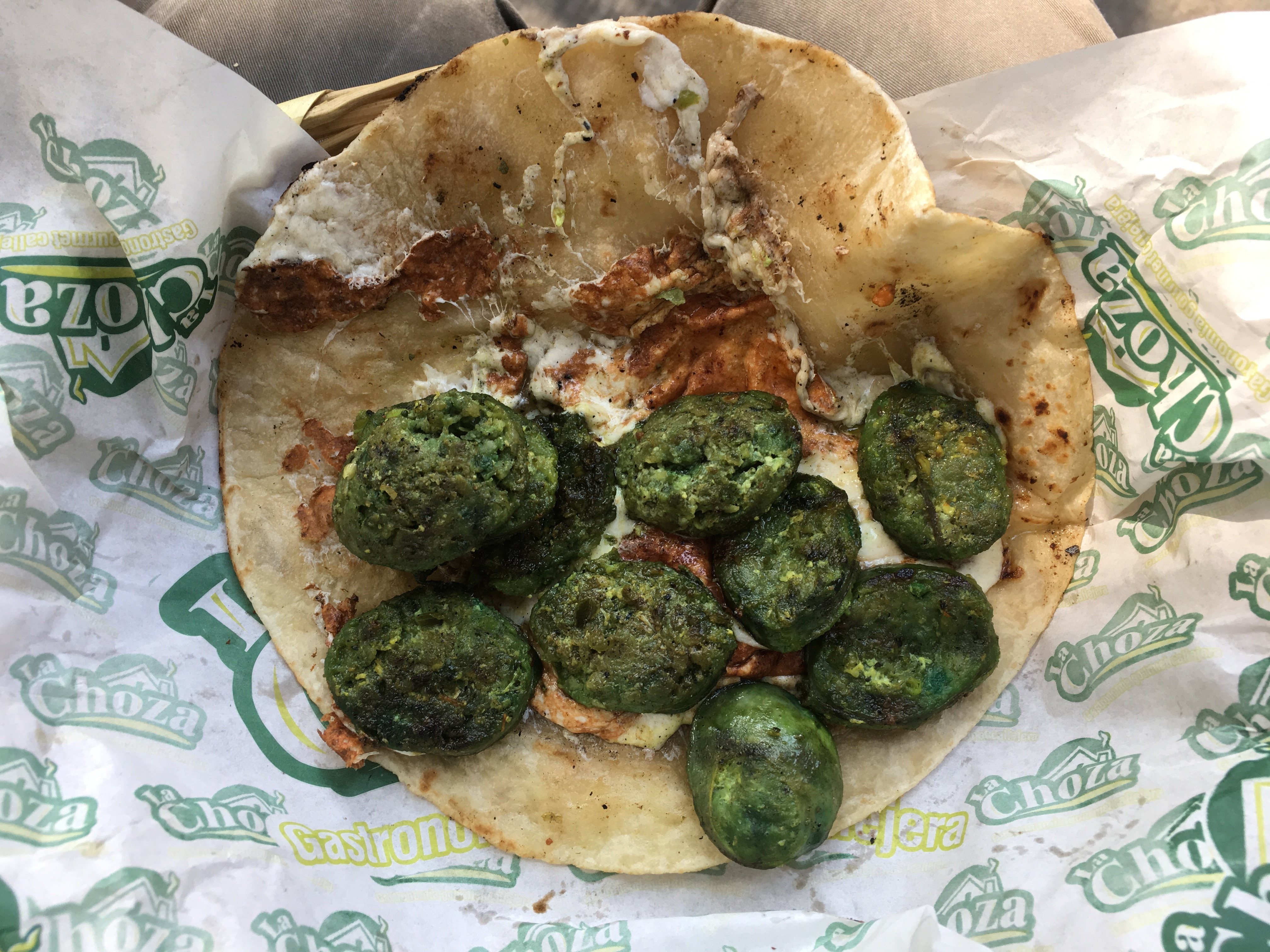 At one point, this was the best taco I ever had...